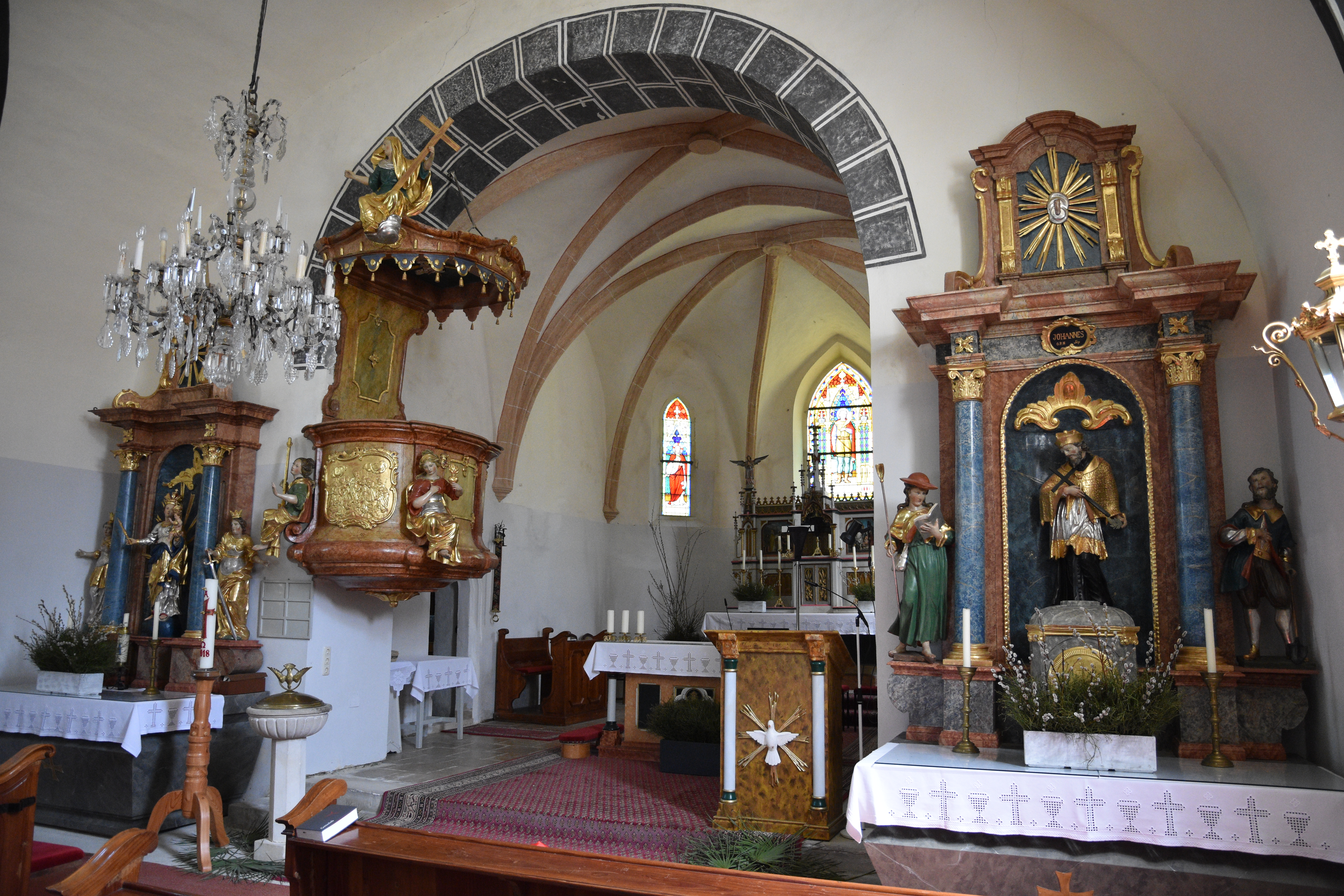 Church Saint Vitus Church (Lutzmannsburg) - Interior